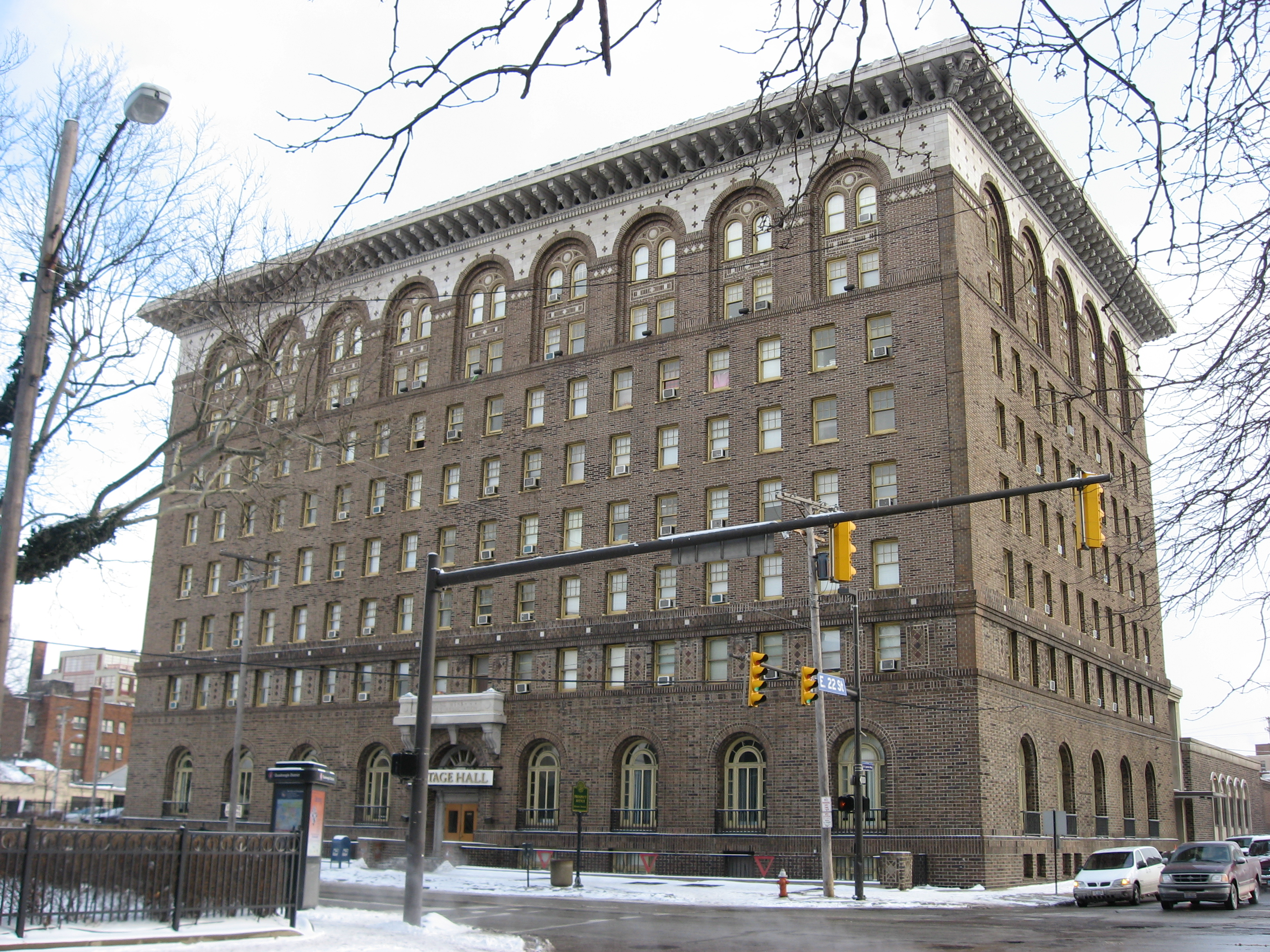 Front and western side of the Central YMCA, located at 2200 Prospect Avenue in Cleveland, Ohio, United States. Built in 1911, it is listed on the National Register of Historic Places.